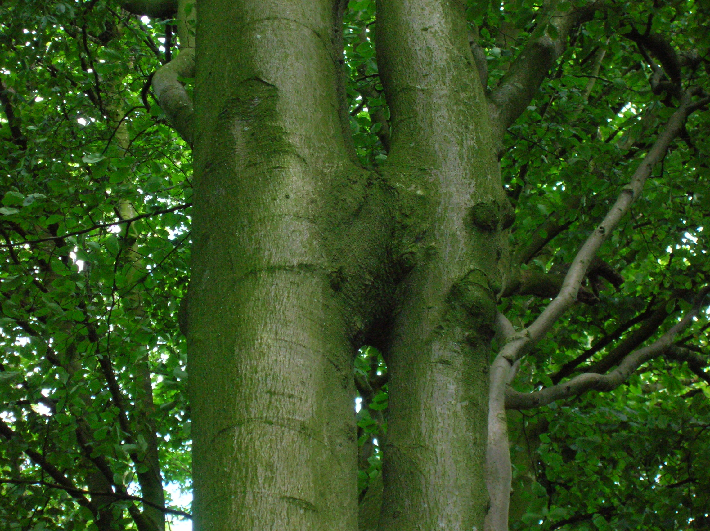 Beech (Fagus sylvatica) inosculation or conjoining. Chapeltoun woods, North Ayrshire, Scotland. An example of a 'Husband and Wife tree'.